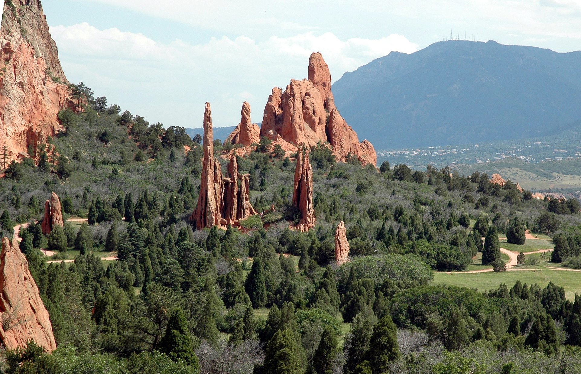 Photographed by and copyright of (c) Robert Corby (User:Corbyrobert, uploader) 2005 Permission is granted to copy, distribute and/or modify this document under the terms of the GNU Free Documentation License, Version 1.2 or any later version published by the Free Software Foundation; with no Invariant Sections, no Front-Cover Texts, and no Back-Cover Texts. A copy of the license is included in the section entitled "GNU Free Documentation License". See also: Image:Hogbckrdg.JPG for what appears to be a duplicate